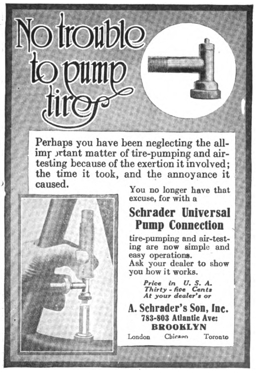 A Schrader valve advertisement in the journal Horseless Age, February 15, 1918, volume 43, number 4, page 89.